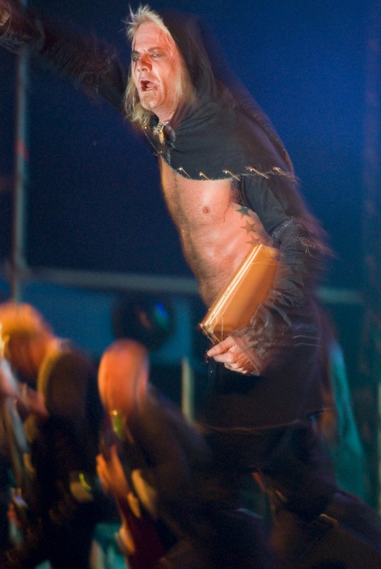 Therion live in Płock, Poland, 2008-09-06.